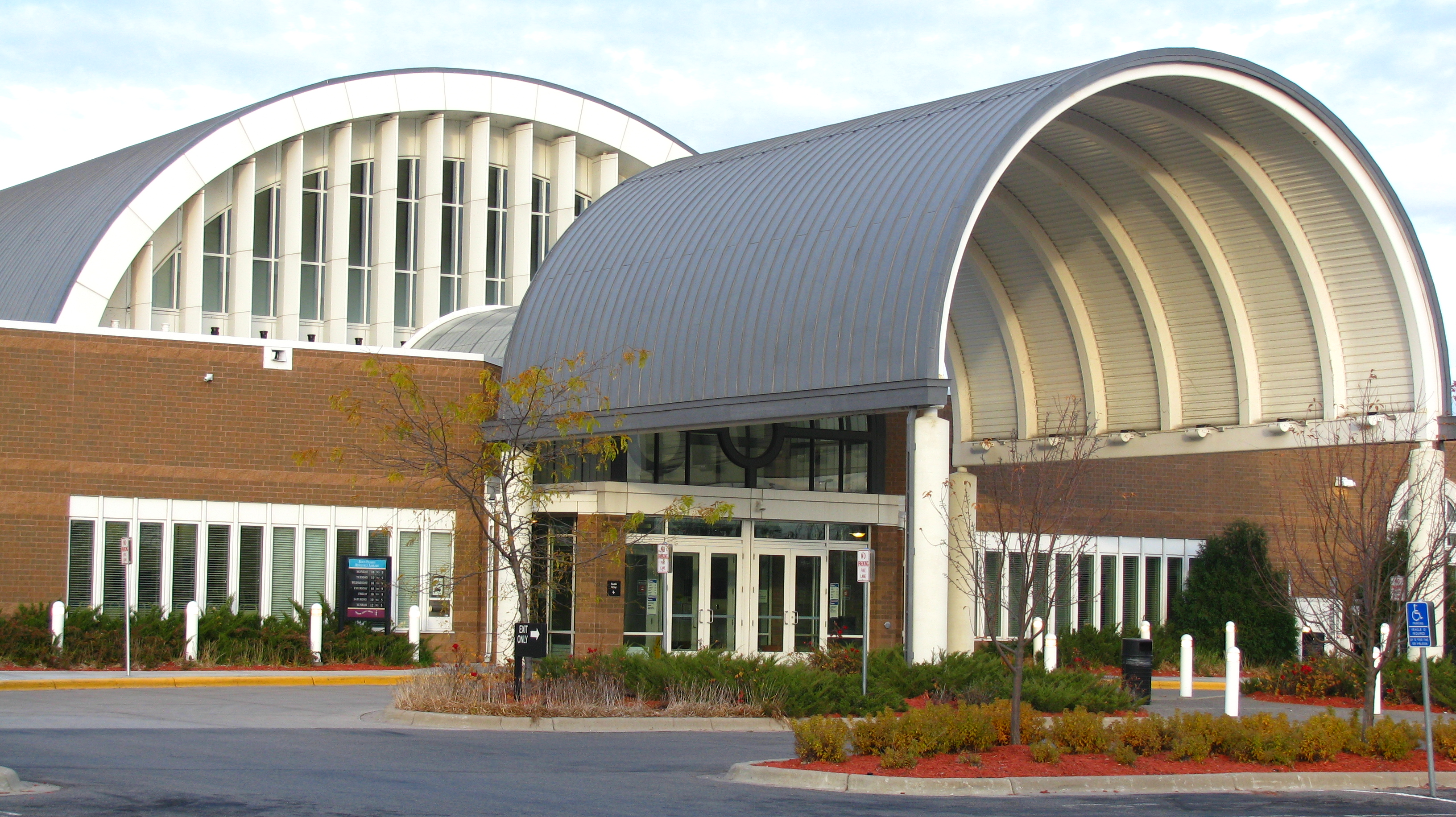 Beth Goodrich